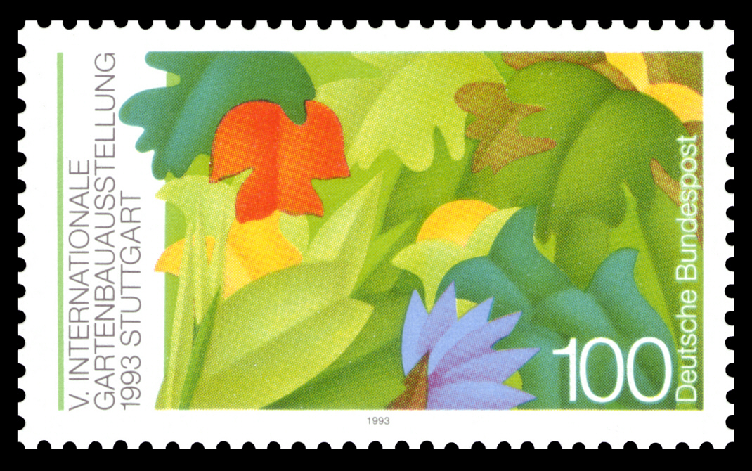 International garden festival in Stuttgart